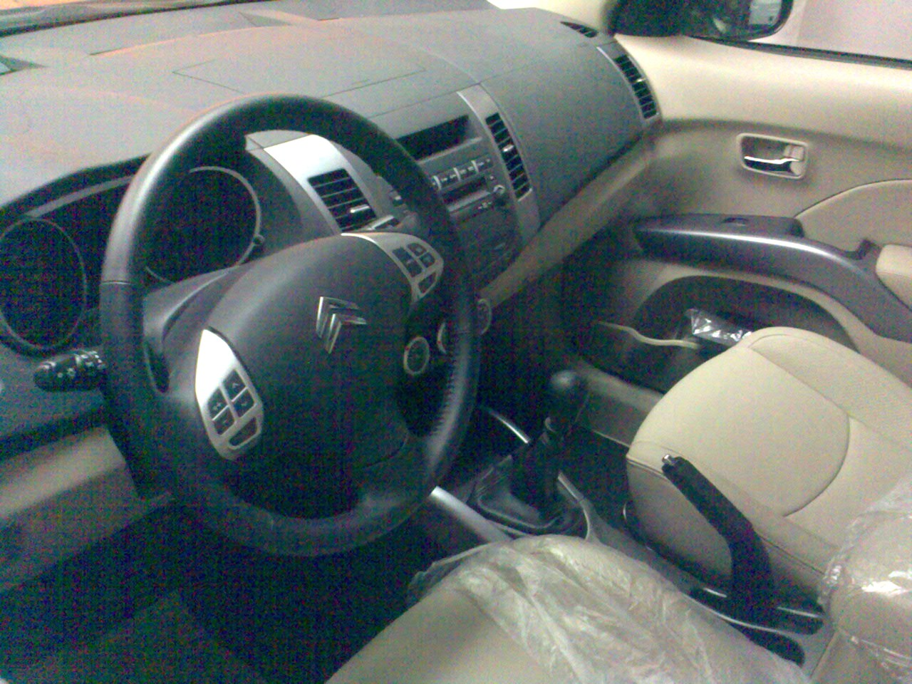 Citroen C-Crosser